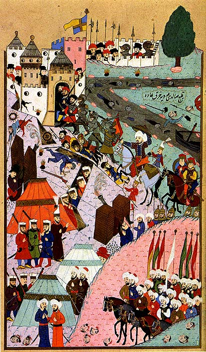 Mehmed II assaulting the fortress of Belgrade - Siege of Belgrade (1456)